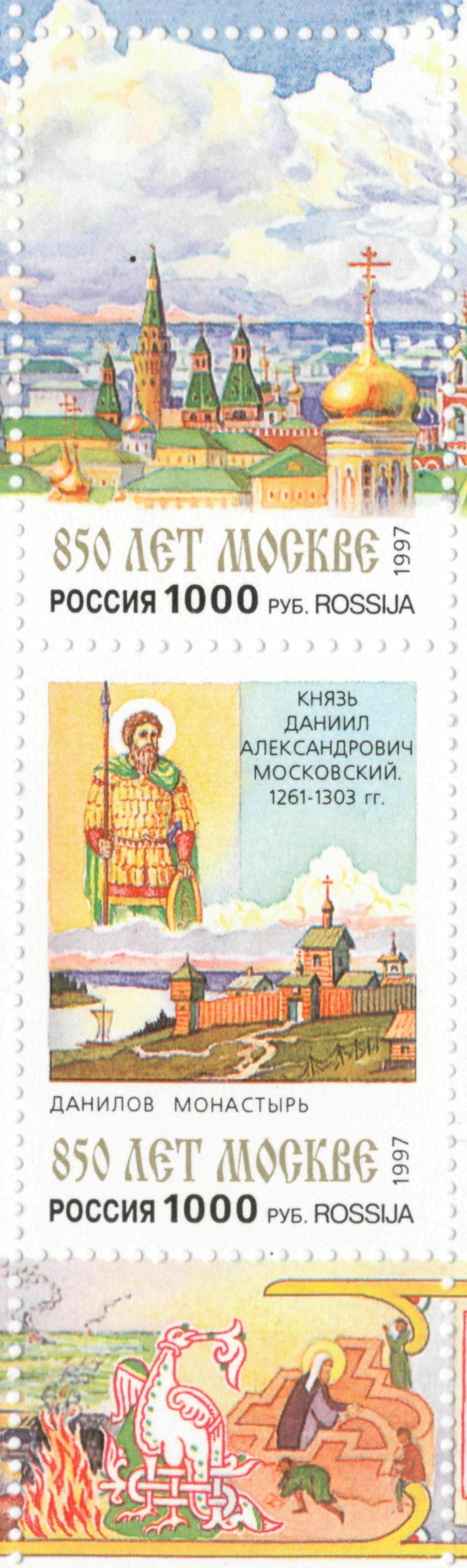 Strip of stamps, Daniil of Moscow and the Danilov Monastery. Russia, 1997. Unused. From the stamp sheet, 850th anniversary of Moscow.